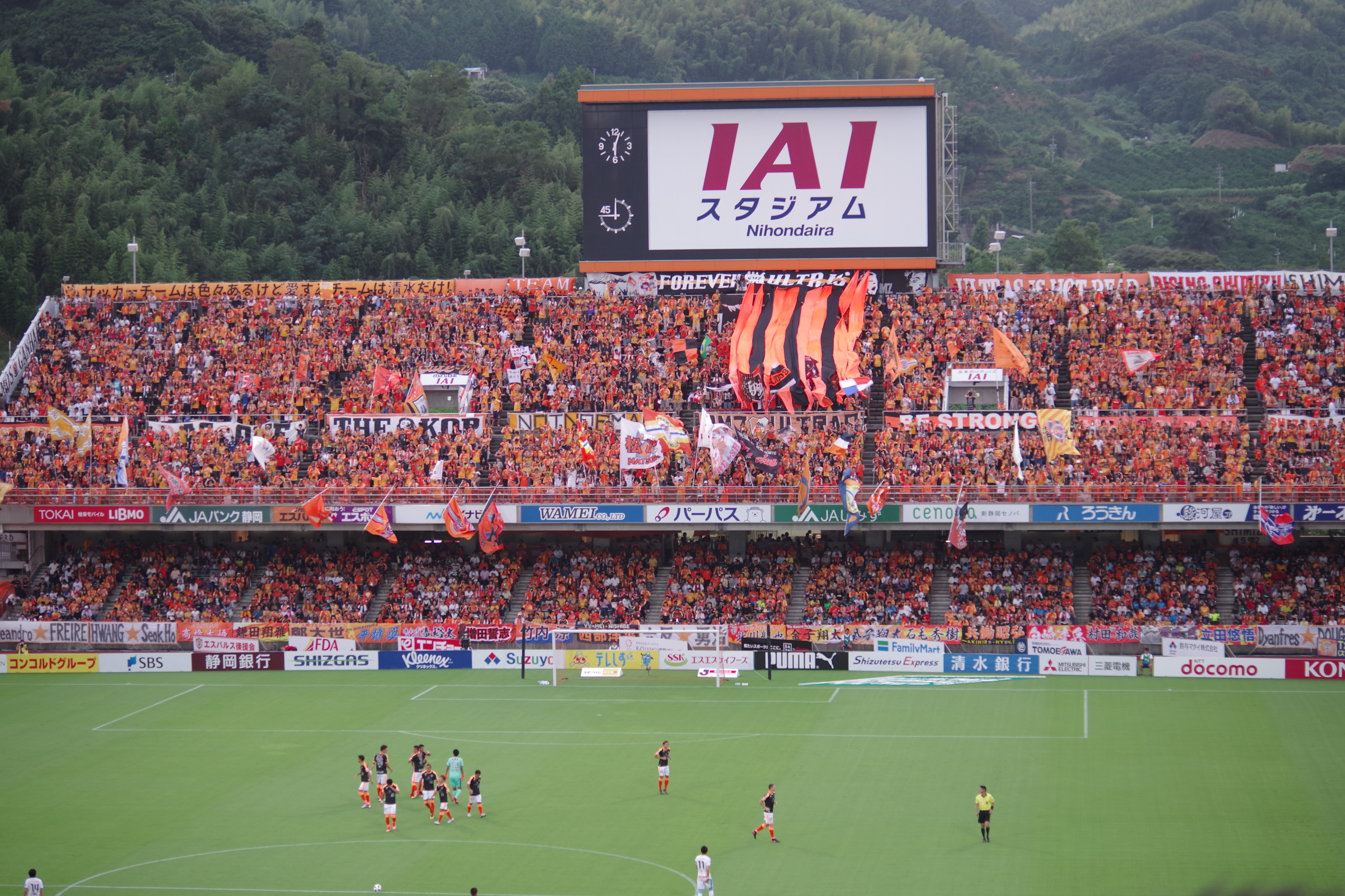 Shimizu S-plus sporters